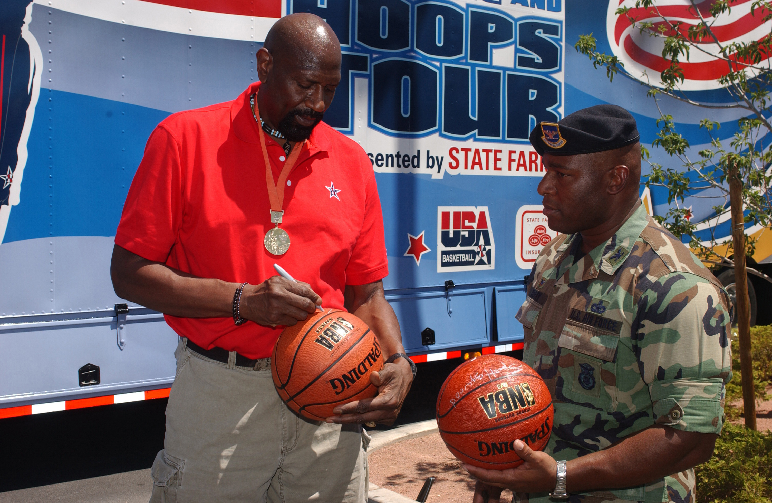 Retired NBA All-Star and Olympic gold medalist Spencer Haywood signs a basketball for Col. Gerald Curry, 99th Security Forces Group commander, Nellis Air Force Base, Nev. Mr Haywood and other former NBA players visited Nellis Aug. 1 to sign autographs and meet the troops as part of a Team USA baseketball tour.